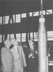 Langley Director Henry Reid (middle), former Langley researcher and soon-to-be-named head of the new Office of Advanced Research Programs (OARP) at NASA headquarters Ira H. Abbott (right), and an unidentified guest stare up at the capsule mounted atop a model of the Atlas booster rocket.